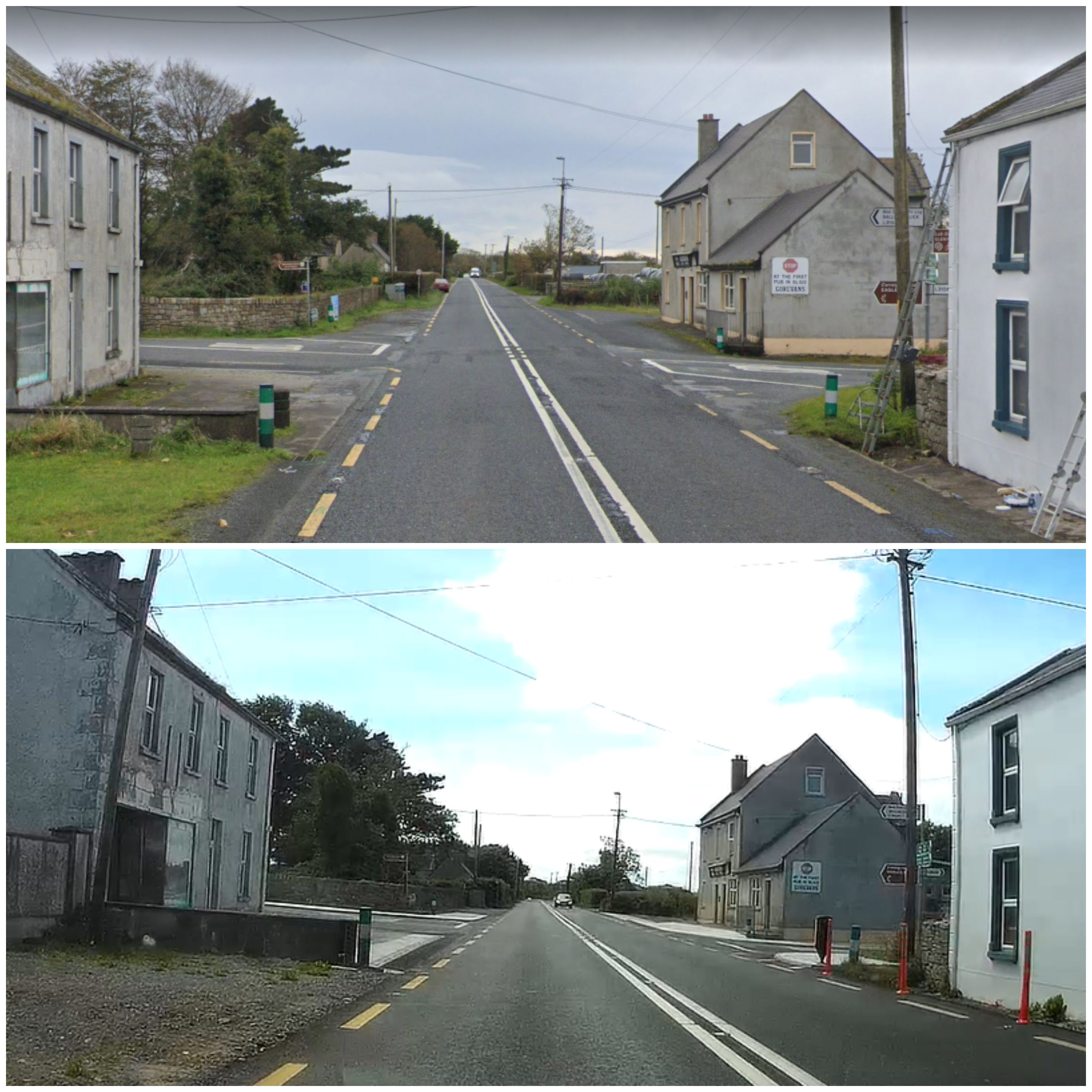 A before and after shot of the Creevykeel Crossroads in North County Sligo